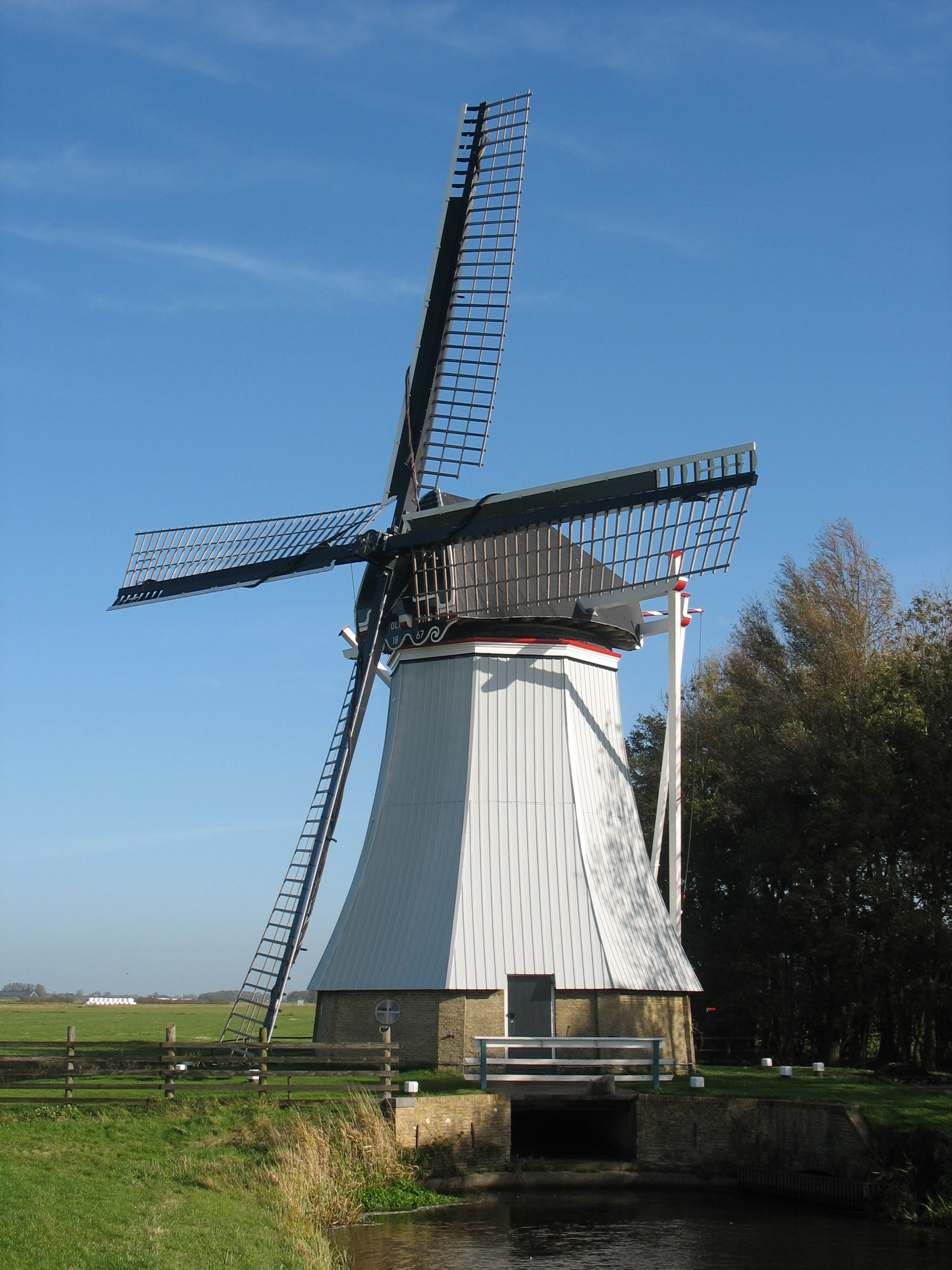 Windmill the "Olifant", Birdaard